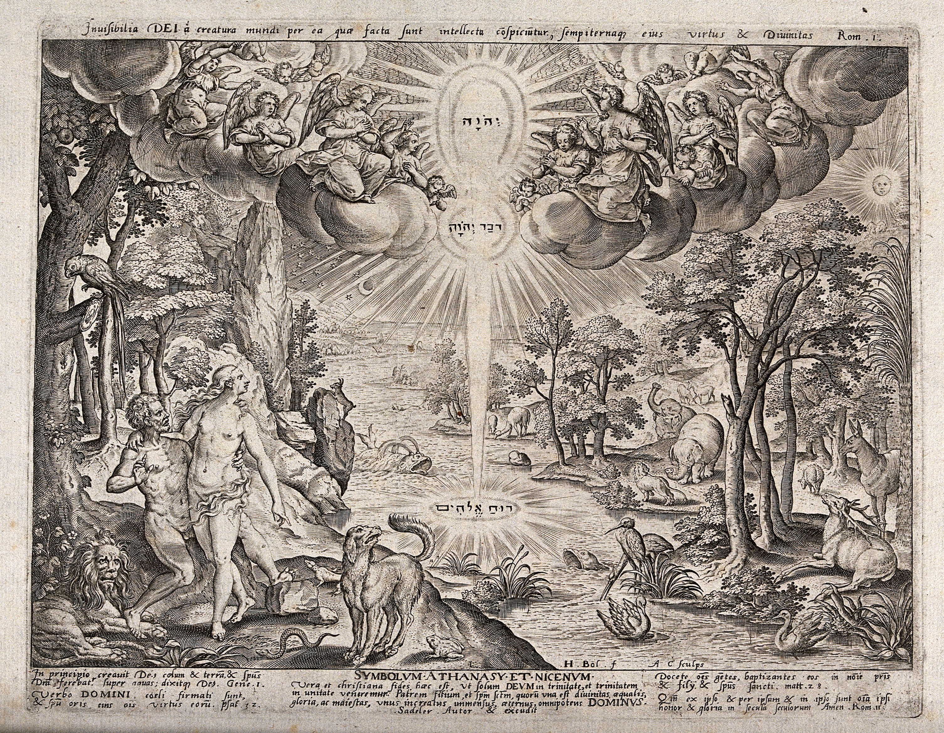 The Garden of Eden illuminated by a tripartite extension of light, symbolising the Trinity. Engraving by A.C. after H. Bol. Iconographic Collections Keywords: A. C.; Hans Bol; Adam; Eve